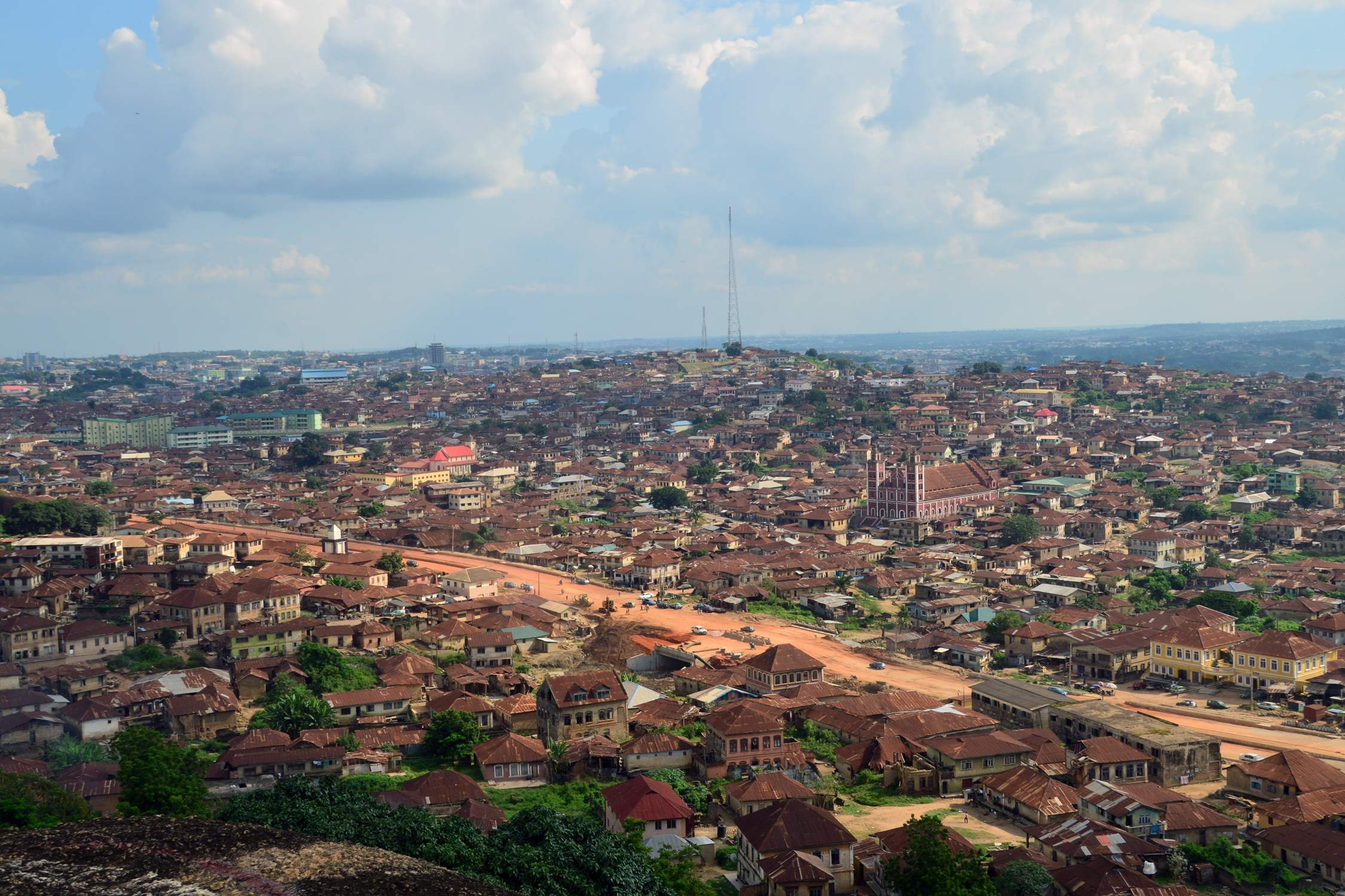 A view of Gbagura mosque in Abeokuta, Ogun State-Nigeria